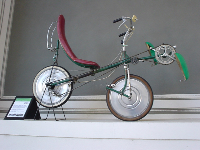 Paul Rinkowski's recumbent bicycle